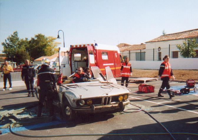 Demonstration of vehicle extrication by hte firefighters of La Rochelle and Sainte-Soulle (Charente-Maritime); the roof is removed, the "squirel" — firefighter from the ambulance (behind) team that stays inside with the casualty — is seatted behind the casualty, holds the oxygen mask and the head; a red protective muff protects the sharp edges of the right forward upright (on the left on the picture); as it is a demonstration, the position of the ambulance does not conform to the normal procedure; Sainte-Soulle (Charente-Maritime)